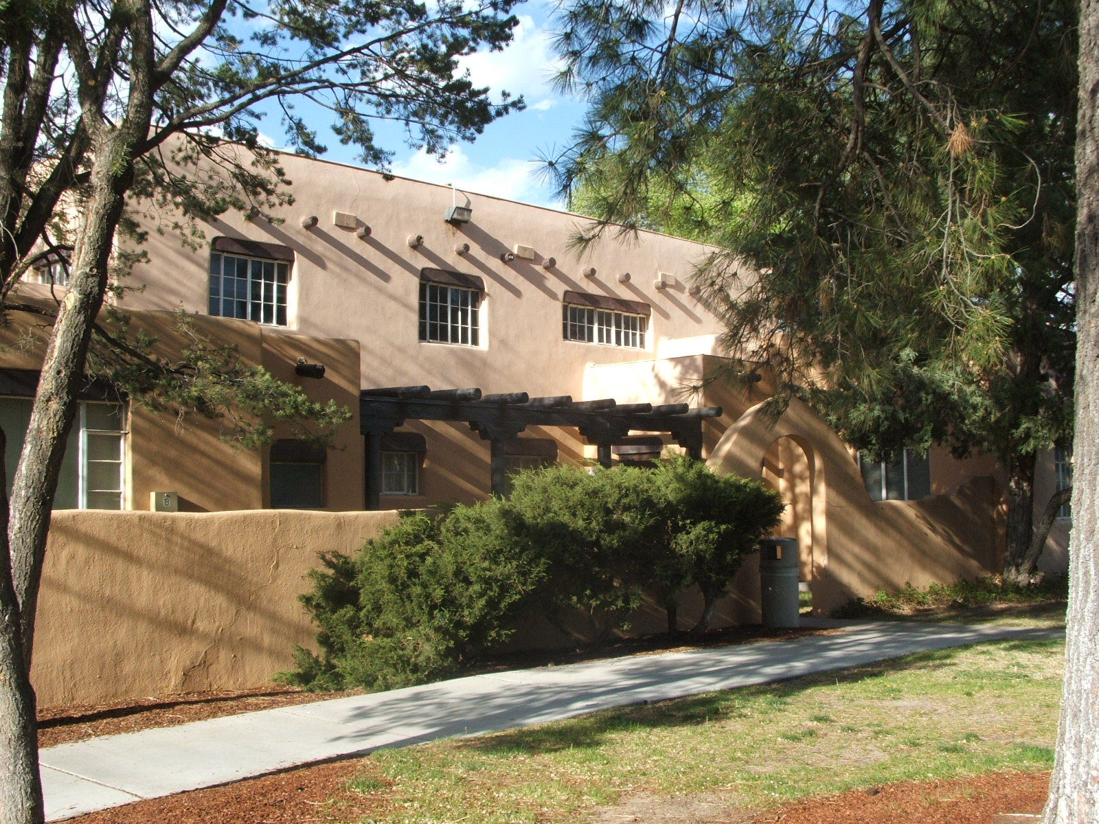 Human Resources building at UNM.